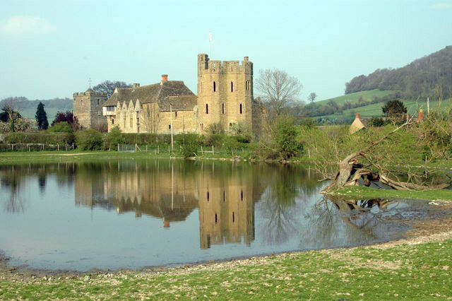 Stokesay Castle, Church & reflection